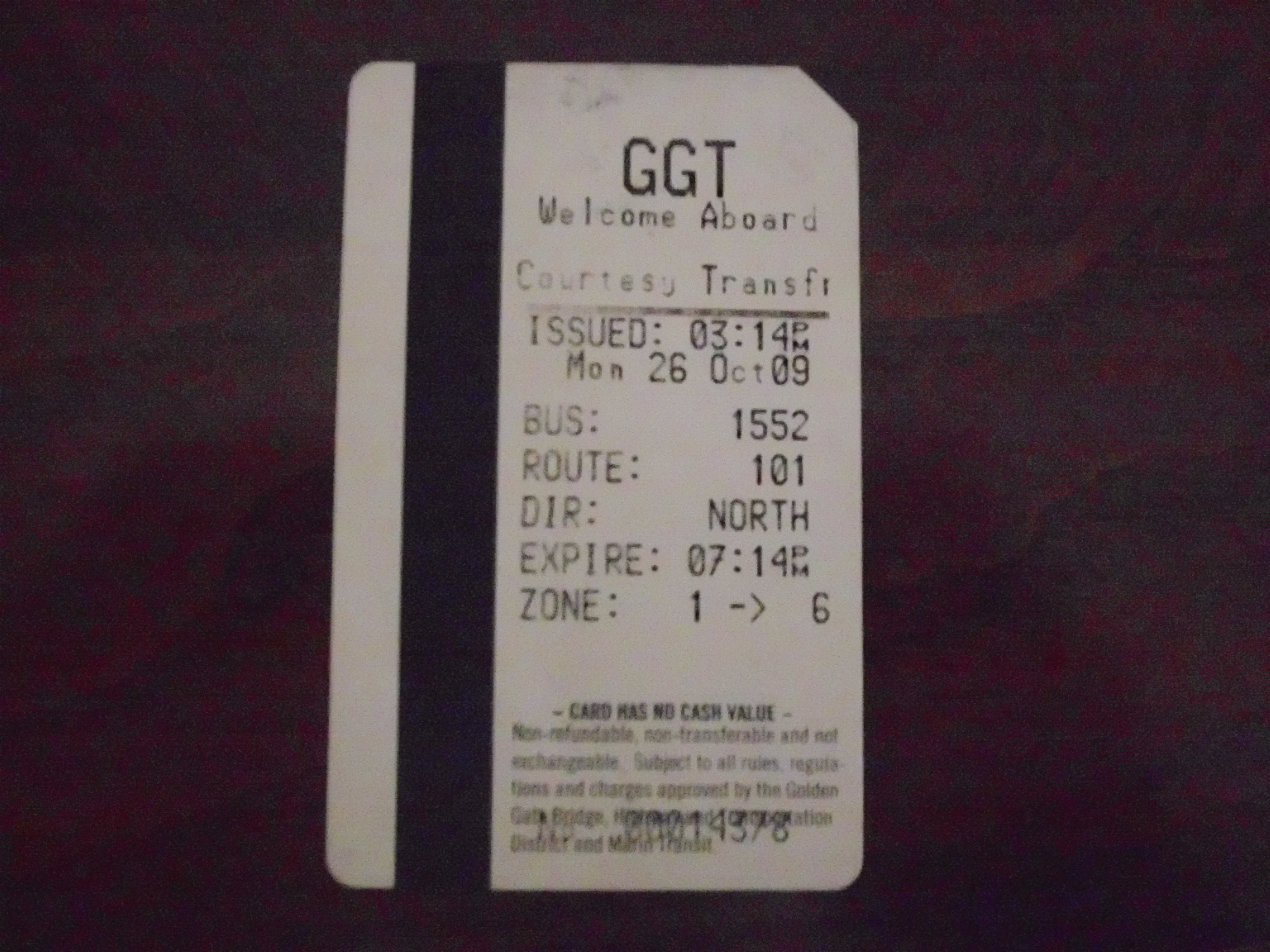 A Golden Gate Transit regional transfer from a northbound Route 101. Note the validity of the transfer as 4 hours total, and the number of zones covered by the transfer, from zone 1 (San Francisco) to zone 6 (Santa Rosa), and it can be used up to three times in the same northbound direction.